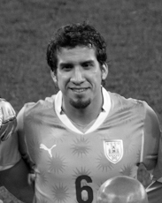 This is a retouched picture, which means that it has been digitally altered from its original version. Modifications: cropped picture. The original can be viewed here: FIFA World Cup 2010 Netherlands Uruguay 6.jpg. Modifications made by Soul Train.